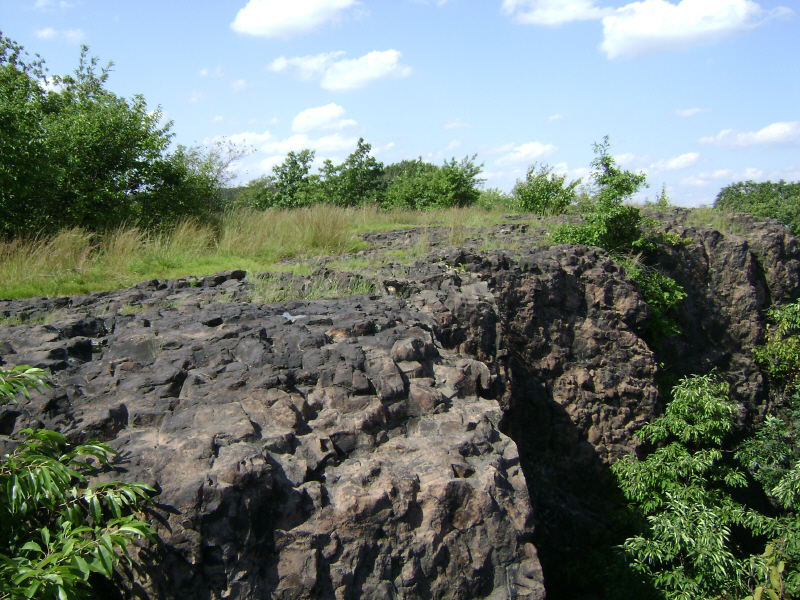 Basalt cliffs seen on Goffle Hill, part of First Watchung Mountain, along the border of Hawthorne and North Haledon in New Jersey.